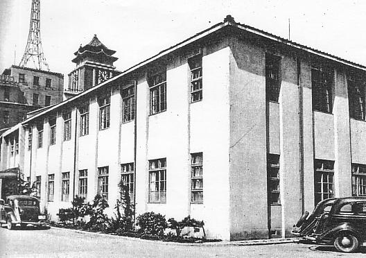 Nagoya City Municipal Police Building